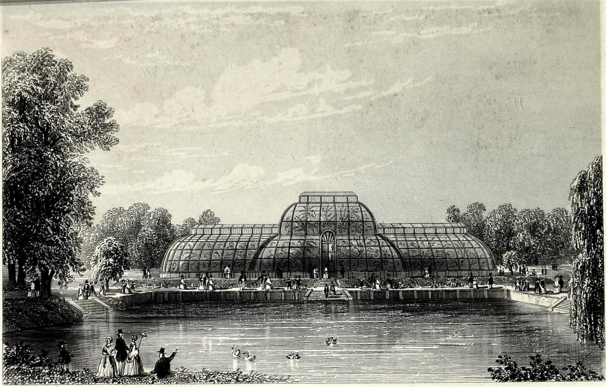 Kew Gardens Palm House - Tallis's Illustrated London, volume 2